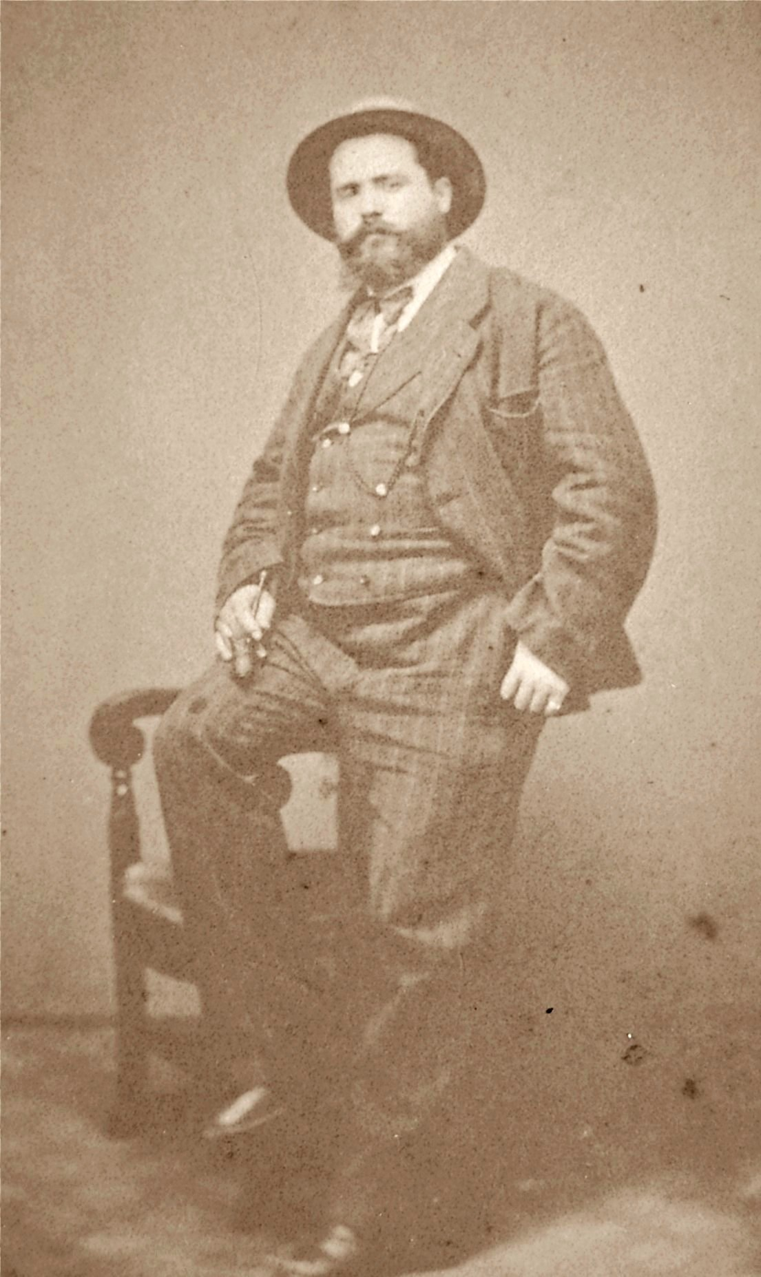 Paul Jean Marie Saïn, Painter from France